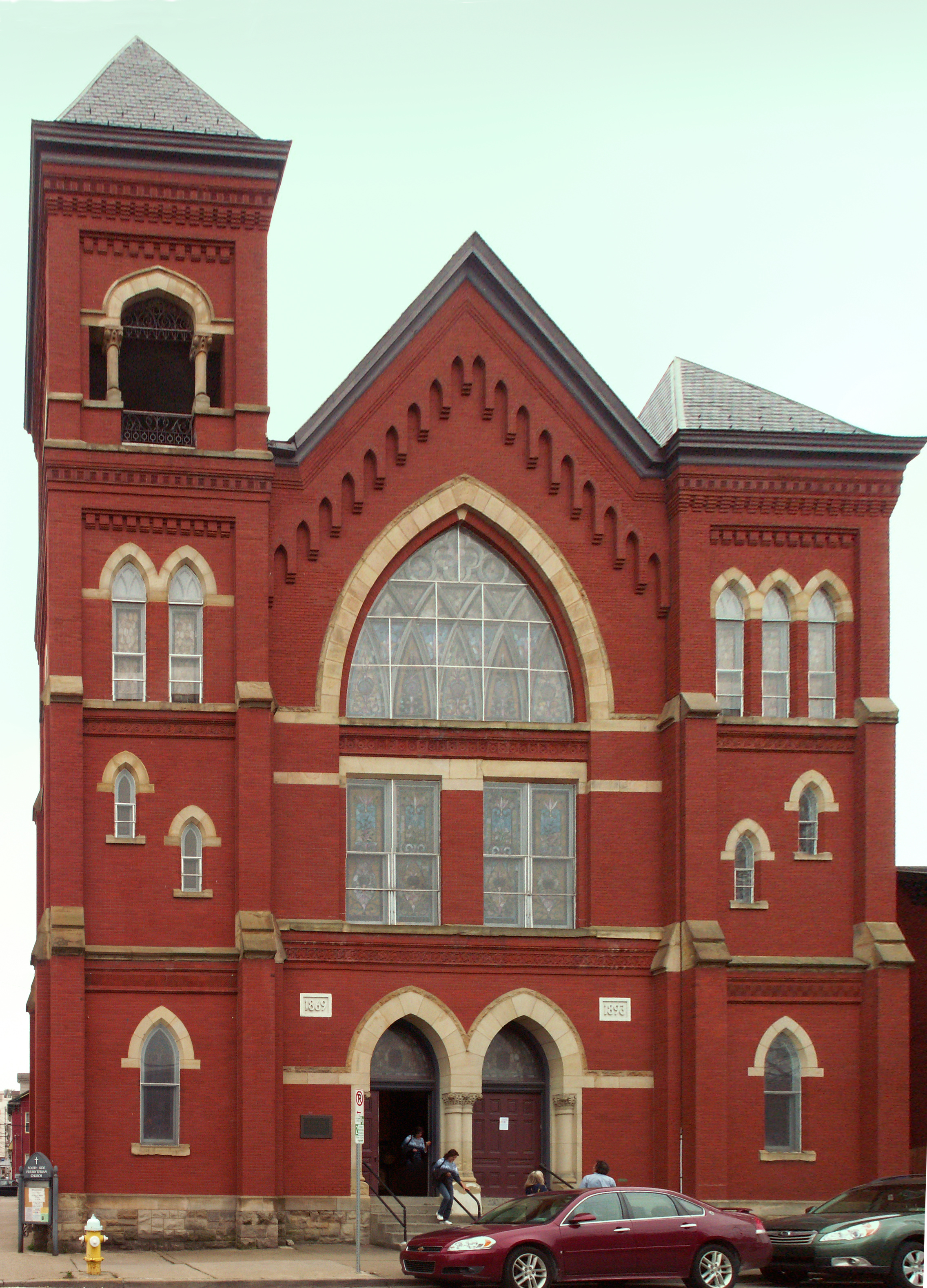 Exterior of the South Side Presbyterian Church